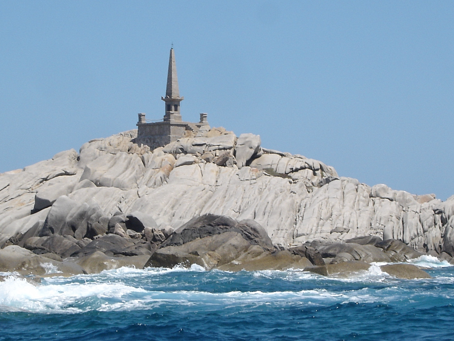 Granite pyramid dedicated to the victims of the Sémillante shipwreck, on the main island of the Lavezzi archipelago (Corse-du-Sud).